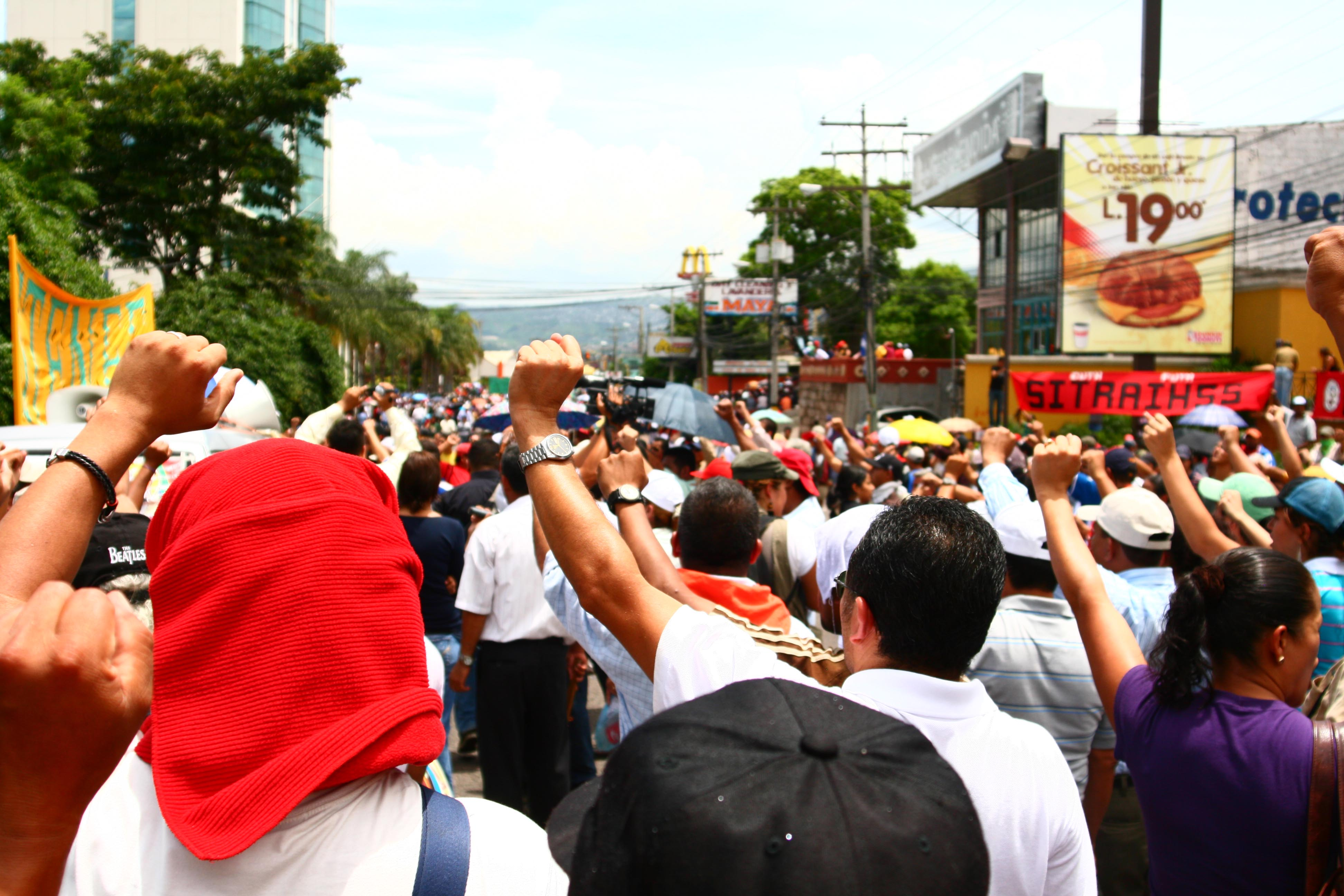 2009 Honduran coup d'état